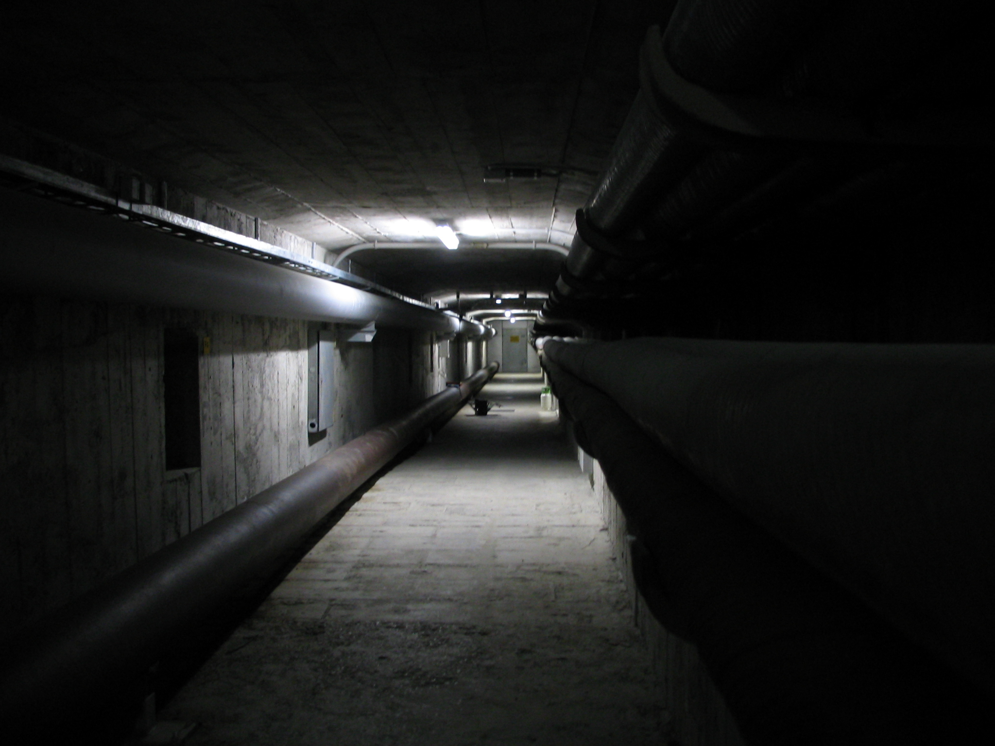 Inside the Lorrainebrücke (bridge) in Bern, Switzerland